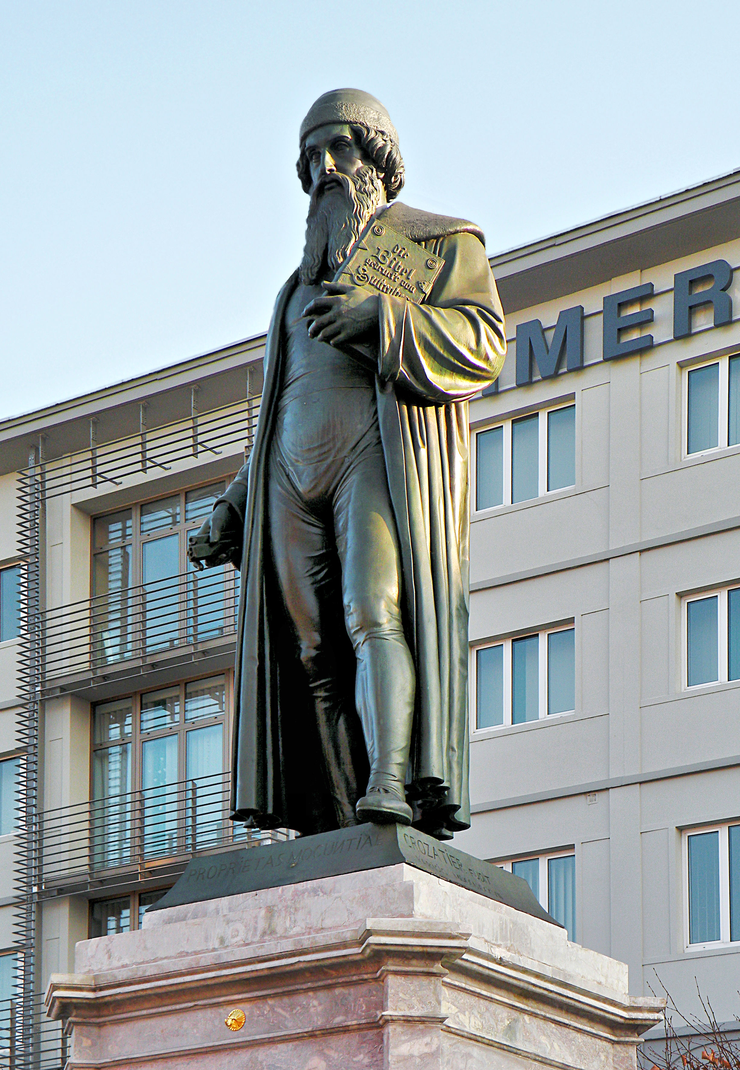 Mainz, Statue of Gutenberg by Bertel Thorvaldsen , casted by Crozatier in 1837